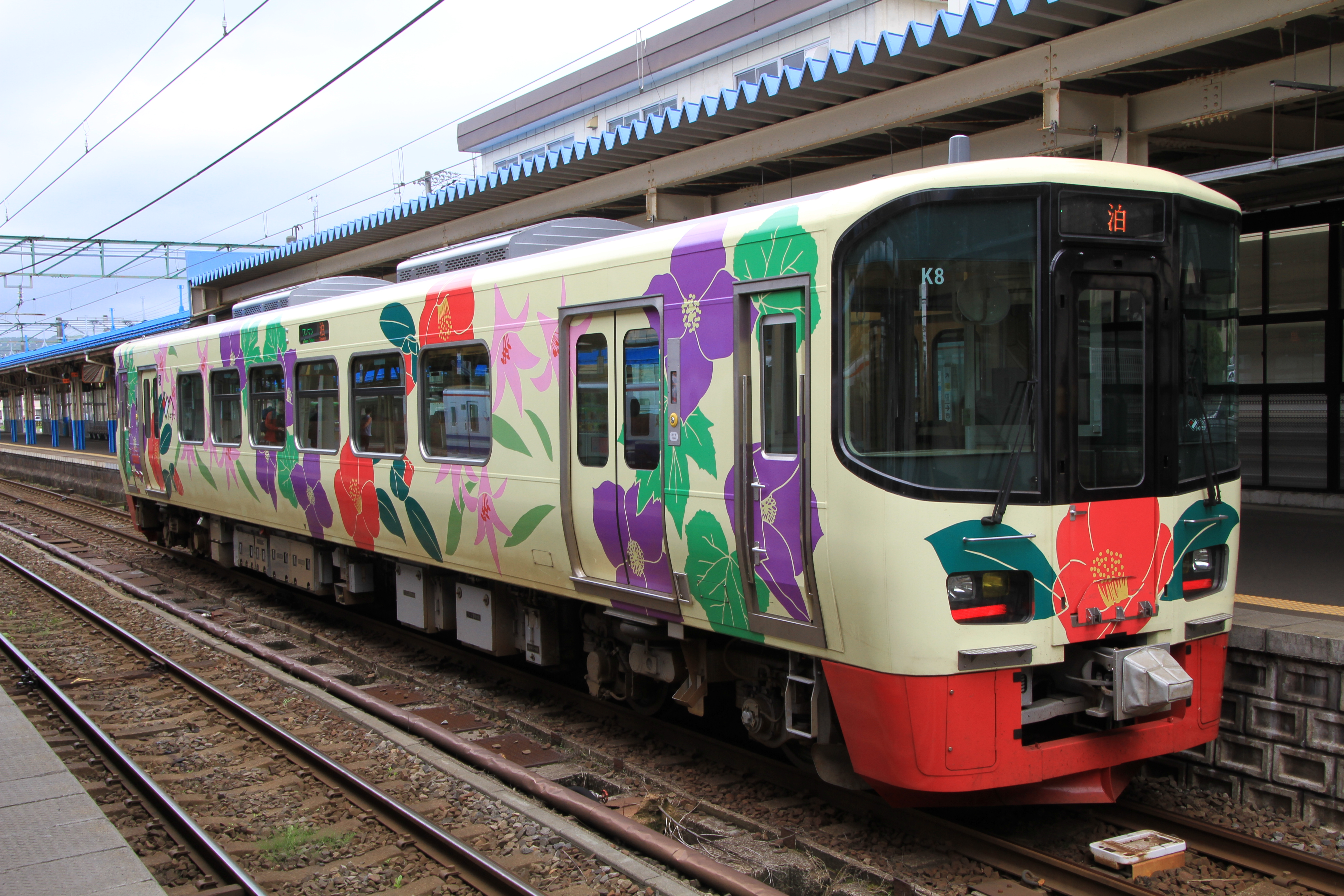 Echigo Tokimeki Railway ET122 DMU car ET122-8 at Naoetsu Station